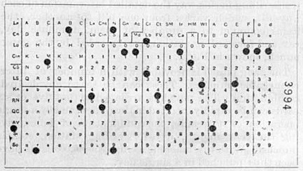 Image of punched card of Herman Hollerith